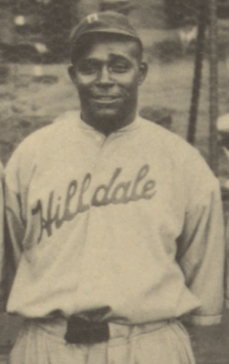 George Carr at the 1924 Colored World Series. LOC states here that there are no restrictions on use of this image, therefore it is PD. This file has been extracted from another file: 1924 Negro League World Series.jpg